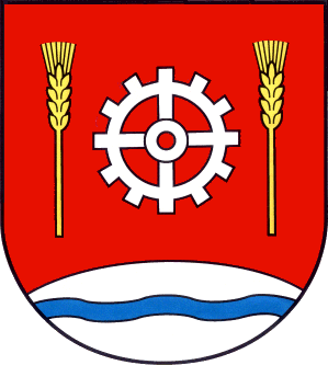 Coat of arms of the municipality Dägeling in Schleswig-Holstein, Germany.